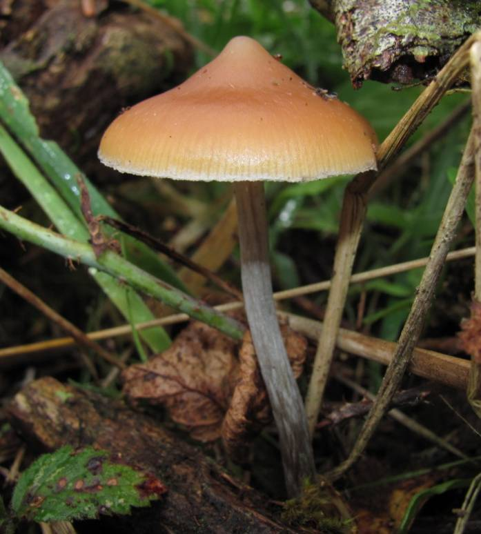 Psilocybe azurescens (Stamets & Gartz) Location: Pacific Co., Washington, USA Observation Notes: [admin – Tue Feb 08 12:34:26 0000 2011]: Changed location name from ‘Pacific Co, Washington, USA’ to ‘Pacific Co., Washington, USA’ For more information about this, see the observation page at Mushroom Observer.